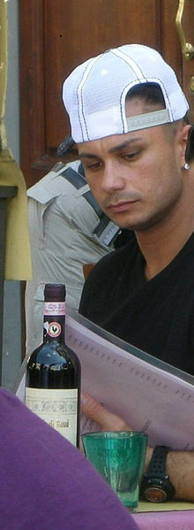 Ronnie, Jersey Shore actor